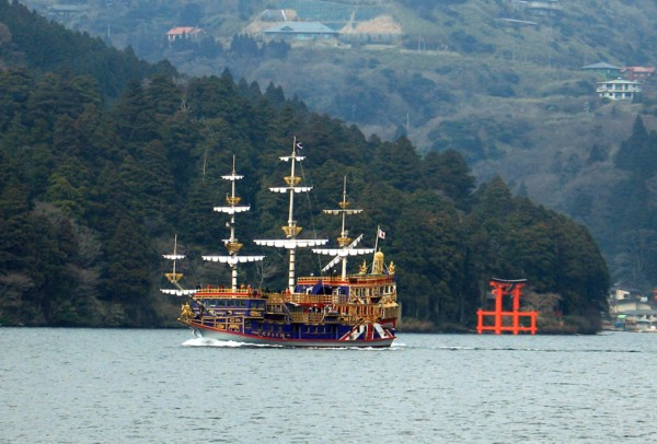 This is a picture of a replica man-of-war pirate ship on Lake Ashi in Hakone Japan.